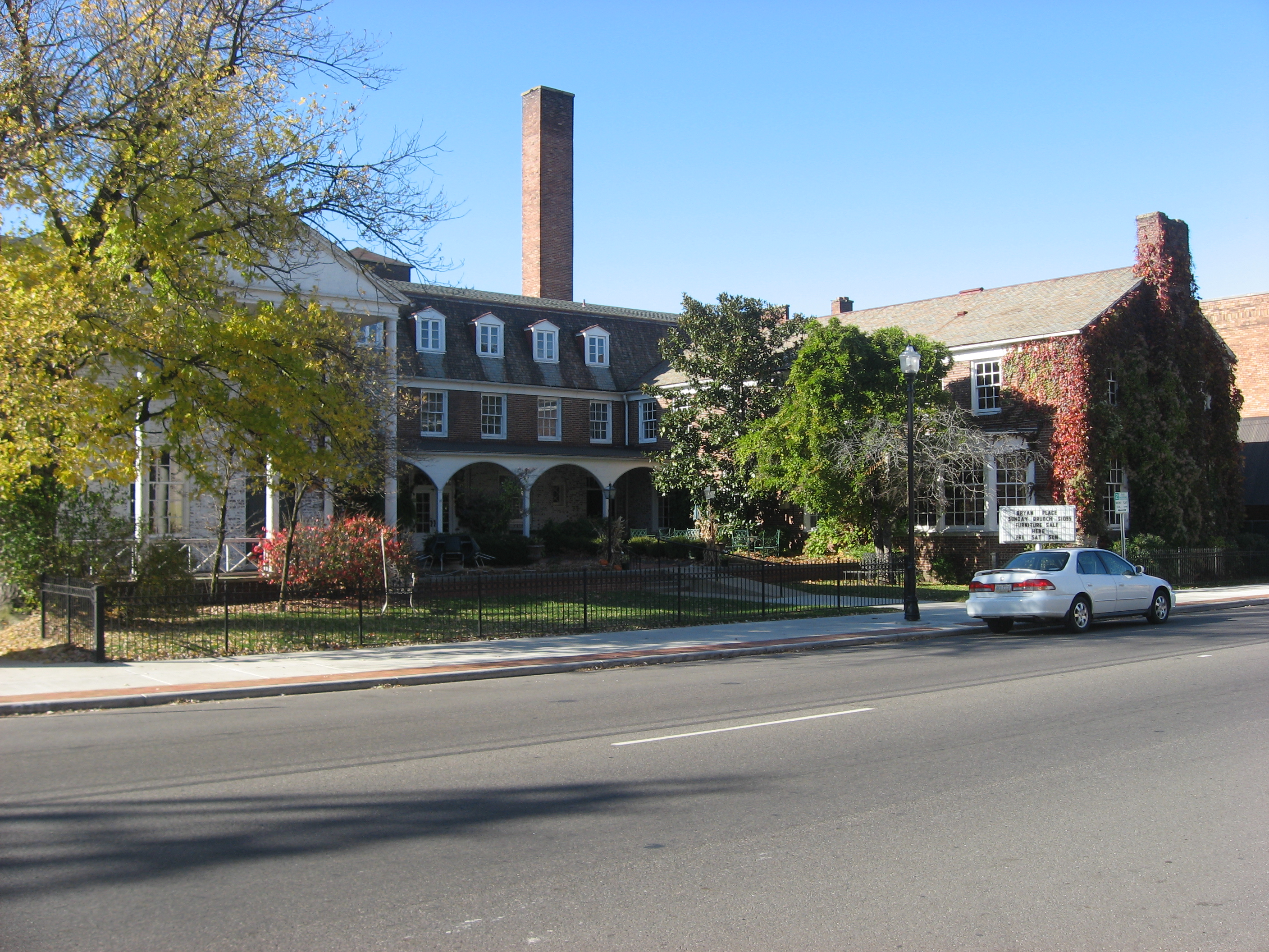 Front of the Zanesville YWCA (now Bryan Place) at 49 N. Sixth Street in Zanesville, Ohio, United States. Built in 1926, it is listed on the National Register of Historic Places.